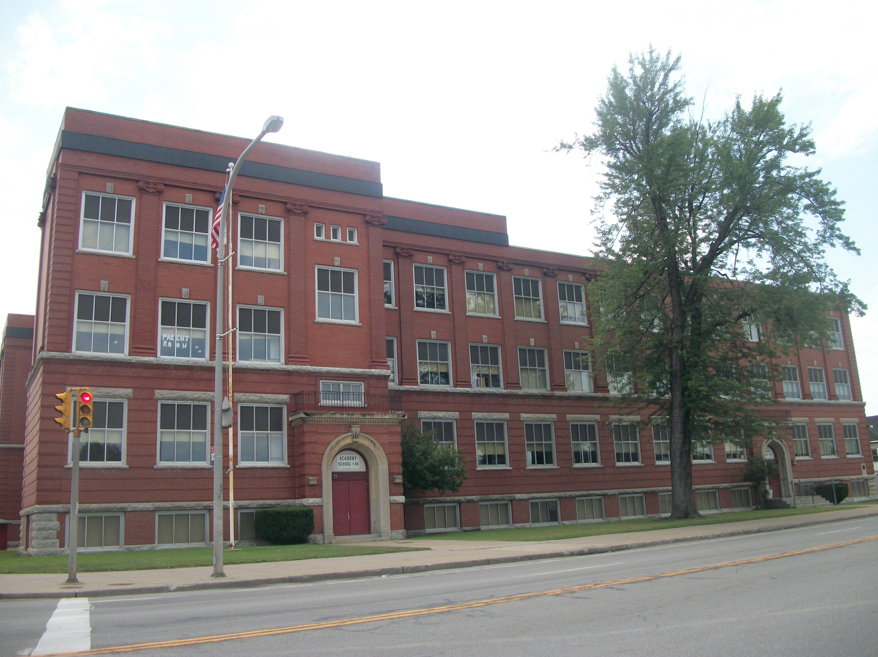 Buffalo Alternative School @ 44 1369 Broadway Buffalo, NY 14212